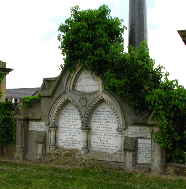 Lanyon memorial, Knockbreda Cemetery, Belfast. Memorial to the celebrated engineer, architect and politician Sir Charles Lanyon, as well as various other members of his family. Lanyon (1813-88) was born in Eastbourne but moved to Dublin in the 1830s to become a civil engineer for the Irish Board of Works. Moving north, he took up the post of County Surveyor for Antrim, engineering the coast road between Larne and Portrush and the Belfast-Ballymena railway line. He was also responsible for the Belfast-Bangor line in Co. Down, and the Queen's and Ormeau bridges in Belfast. From the mid-1840s onwards he set about constructing some of the most famous landmarks in Belfast architecture. His buildings are too numerous to mention in full but some of the most important and well known are Queen's College (later Queen's University) 395091, Crumlin Road Courthouse and Gaol 520778, the Palm House in Botanic Gardens 363200 and the Union Theological College 395032. In the 1860's he diversified his career, resigning from the County Surveyorship and was elected Mayor of Belfast in 1862. He was also elected President of the Royal Institute of Architects of Ireland from 1862-63, was a Fellow of the Institute of British Architects and a member of the Institute of Civil Engineers. He was knighted in 1868. Lanyon died at his house, The Abbey, Whiteabbey 324071, on the 31st May 1888. and for more information on his life. Other notable members of the family mentioned on the memorial include Captain William Mortimer Lanyon, 1st Battalion Royal Irish Rifles, who was killed on active service on the 5th April 1915 and is buried at Fleurbaix Cemetery, France. Also mentioned is Sir Charles's eldest son John who died and was buried at Orotaba, Tenerife, on the 13th February 1900.